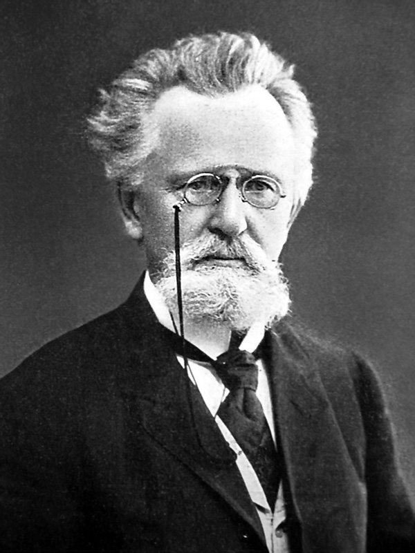 Czech writer Antal Stašek in 1908.